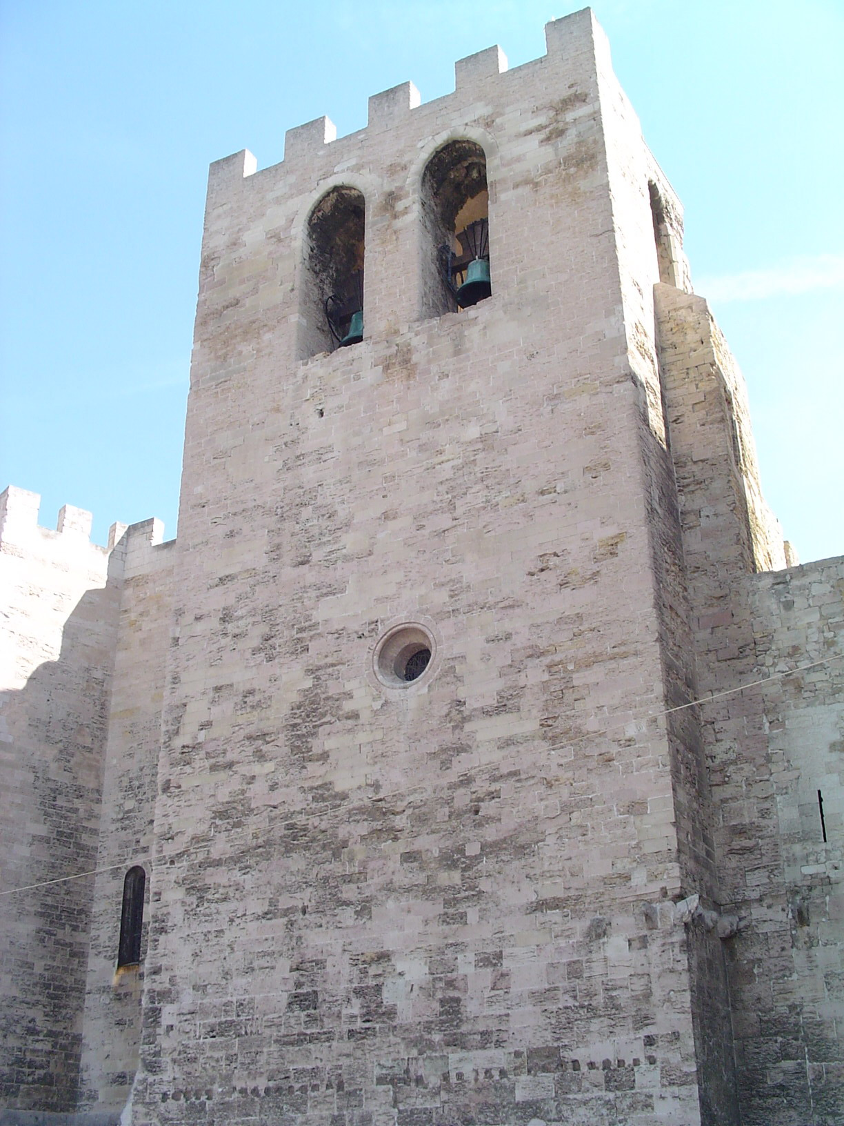 Tour de l'abbaye fortifiée de Saint-Victor, Marseille. Abbey of Saint-Victor, French city of Marseille.